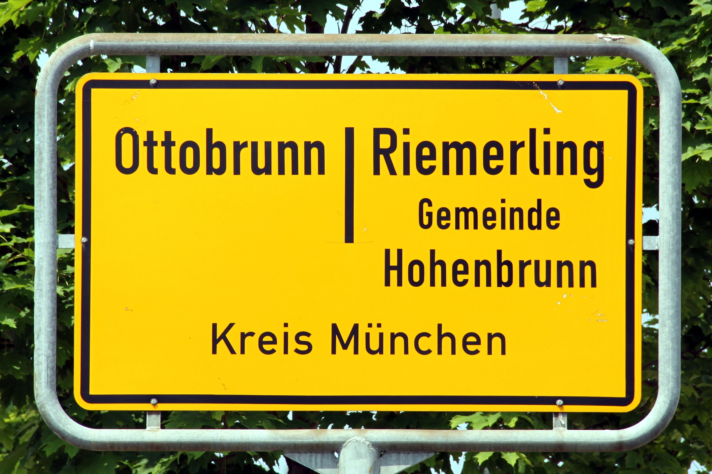 Ottobrunn / (Hohenbrunn-)Riemerling: Shared place-name sign (on Rosenheimer Landstraße)